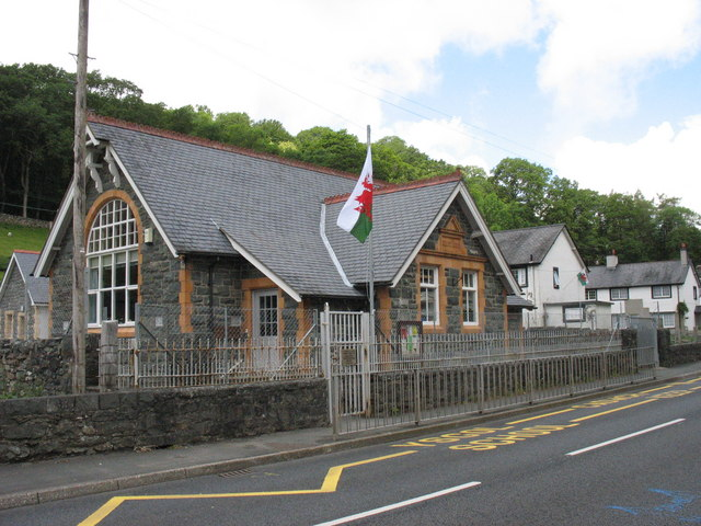 Ysgol Gynradd Y Ganllwyd Primary School